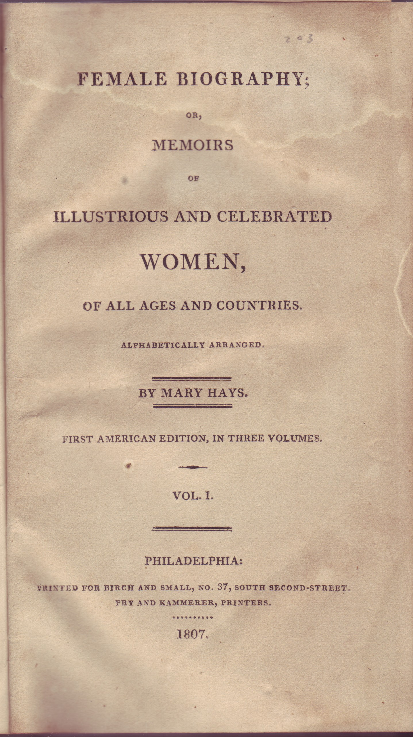 Title page ; 1st American Edition ; Female Biography or, Memoirs of Illustrious and Celebrated Women by Mary Hays, 1807